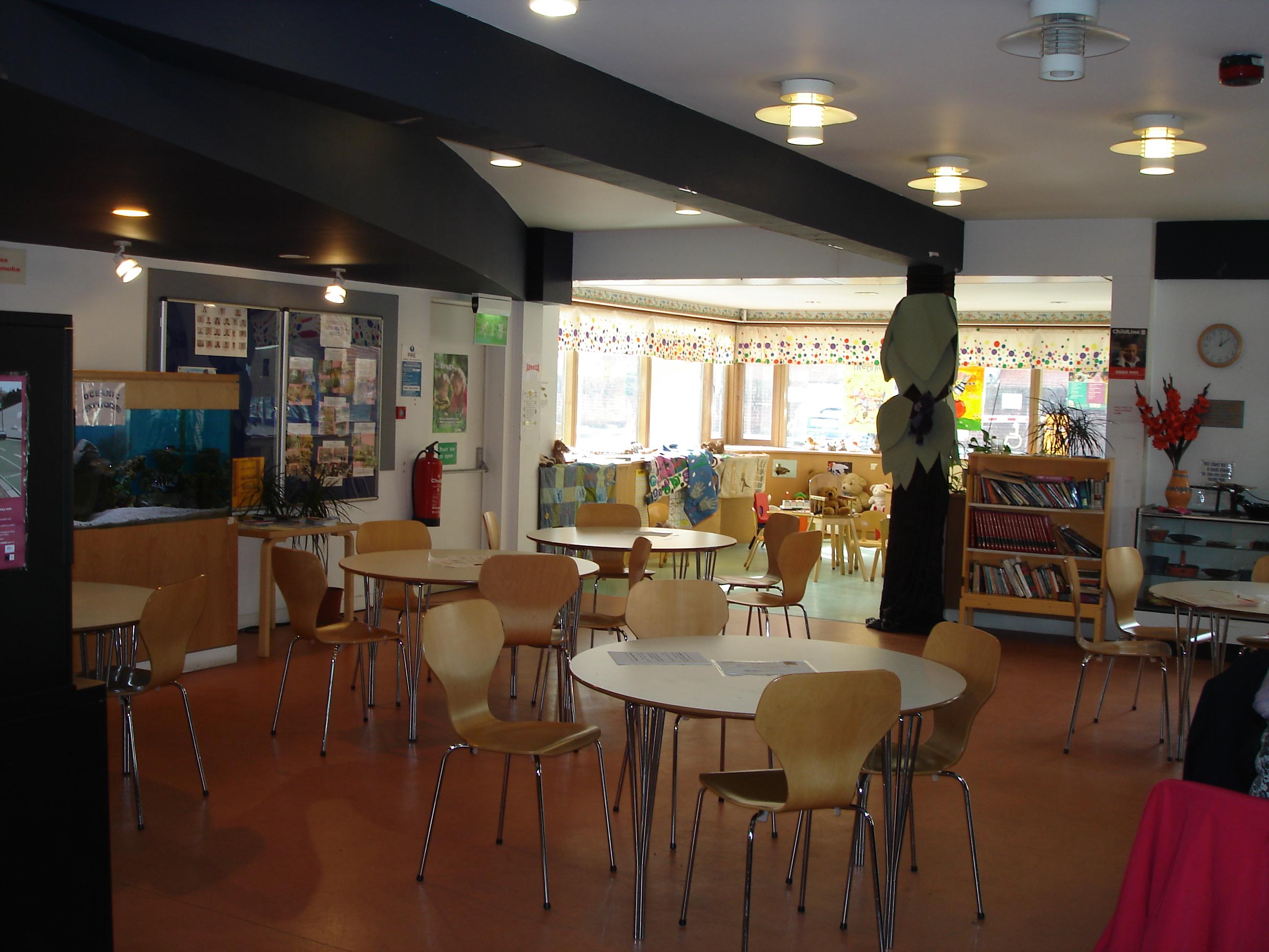 Visitor room in the Holloway prison, Islington, London, United Kingdom.